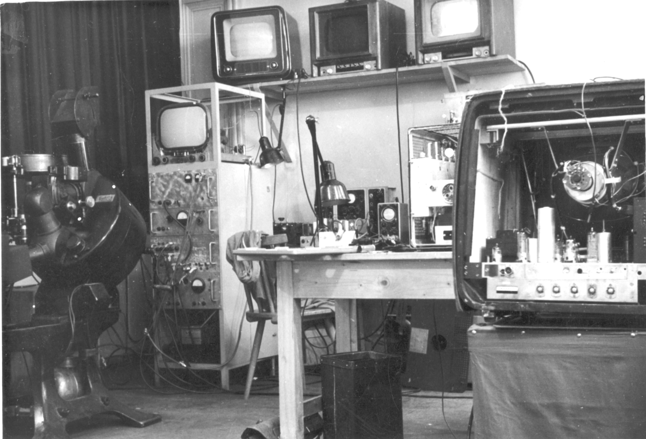 TV-labatory 1951, Grundig.